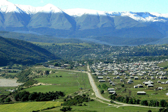 View of the village Kalininaul i Leninaul